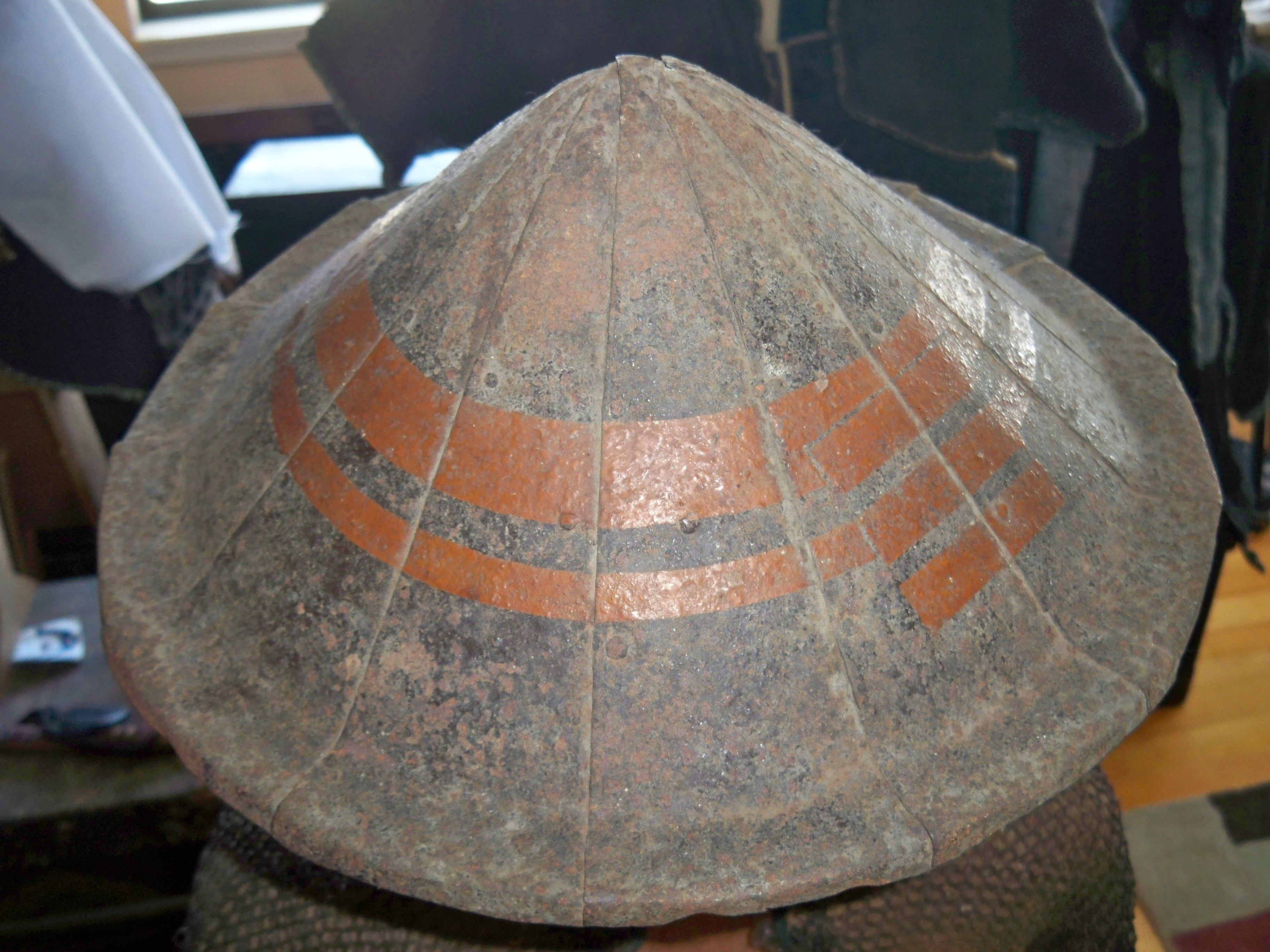 Edo period Japanese (samurai) iron hat "jingasa" worn by foot soldiers "ashigaru"